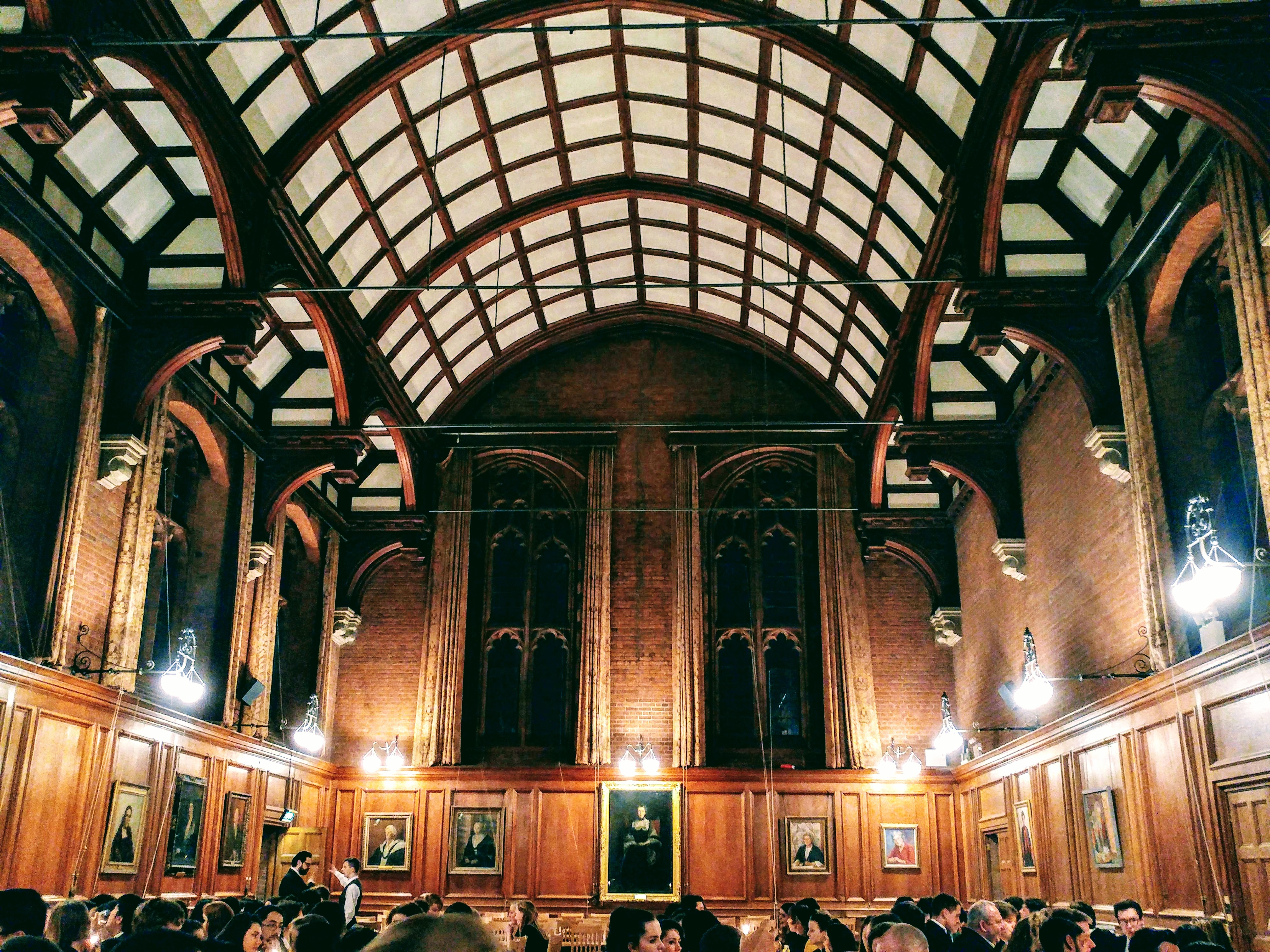 The Great Hall at Girton College, Cambridge, is used for the college's formals.